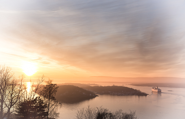 The sun is setting over the Oslo fjord. Seen from Ekebergparken.